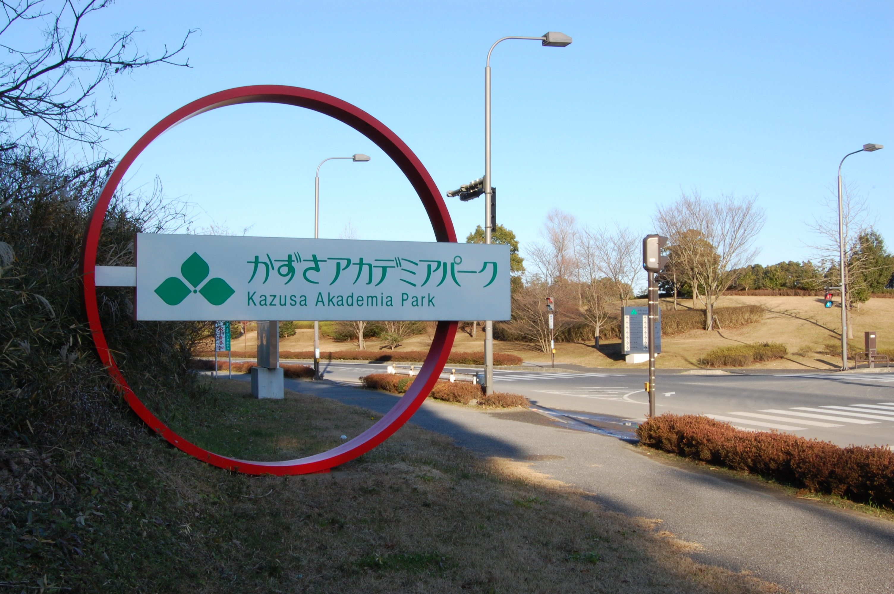 Kazusa AkademiaPark in Kisarazu, Chiba, Japan.